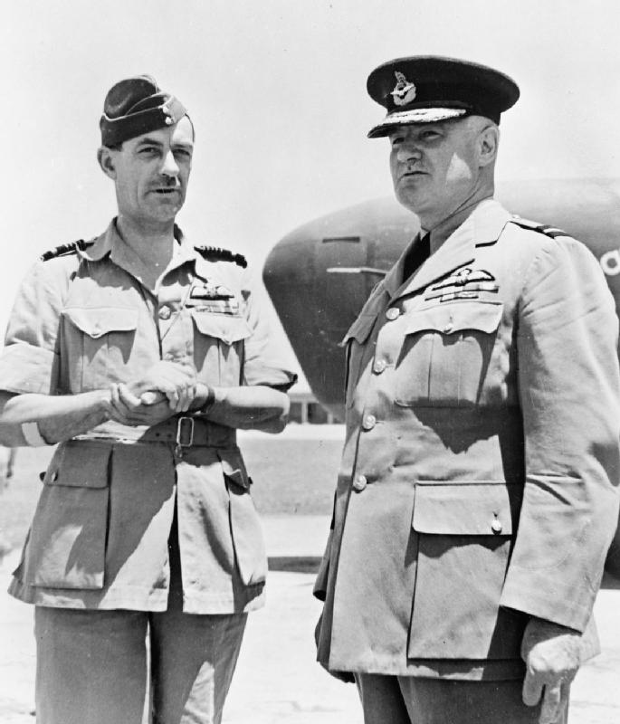 IWM caption : Air Marshal Sir John Linnell, Deputy Air Officer Commanding-in-Chief, Middle East (left), talks with Air Commodore A C Critchley, the newly-appointed Director-General of British Overseas Airways Corporation at an airfield in the Middle East.